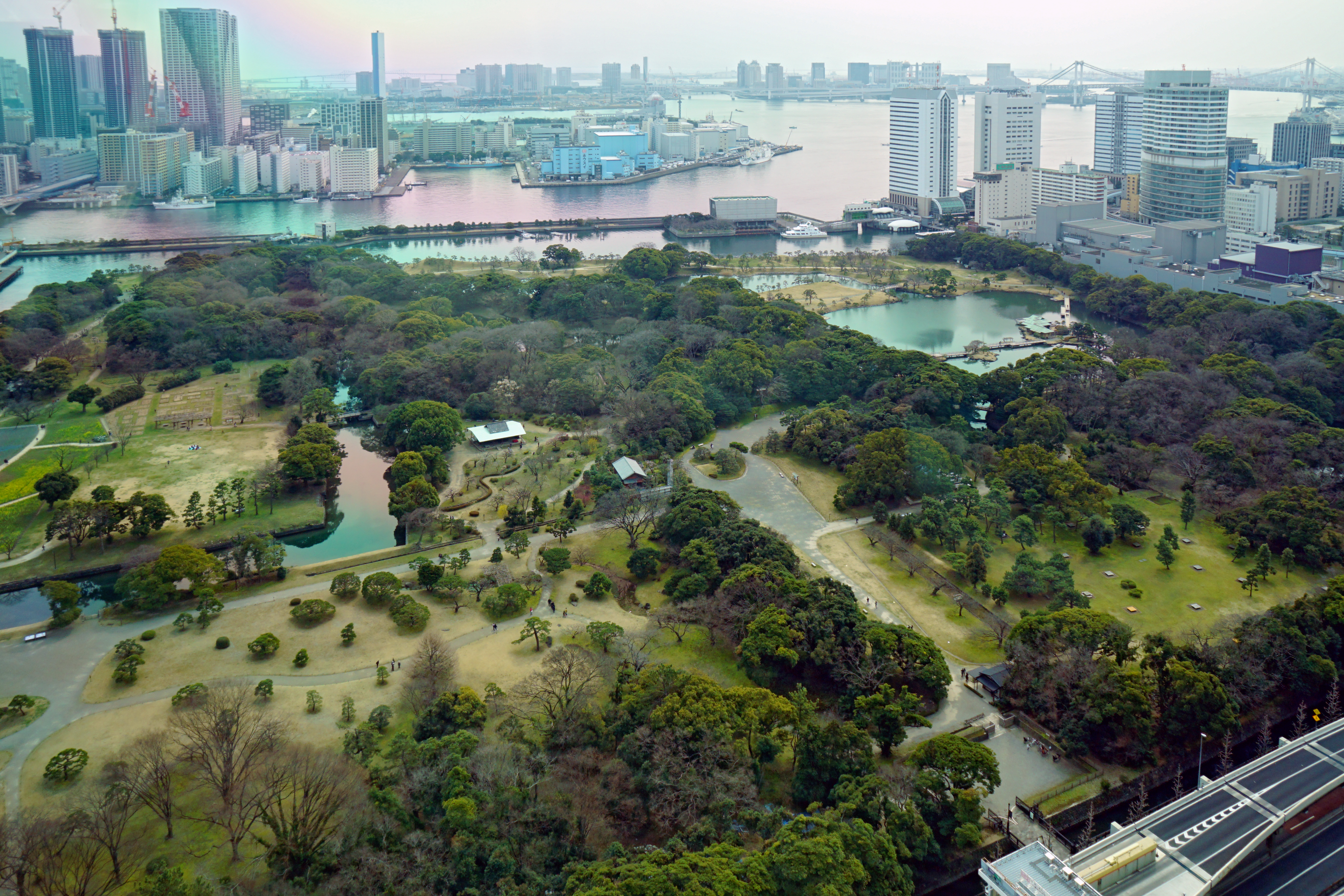 At Conrad Tokyo, Tokyo, Japan